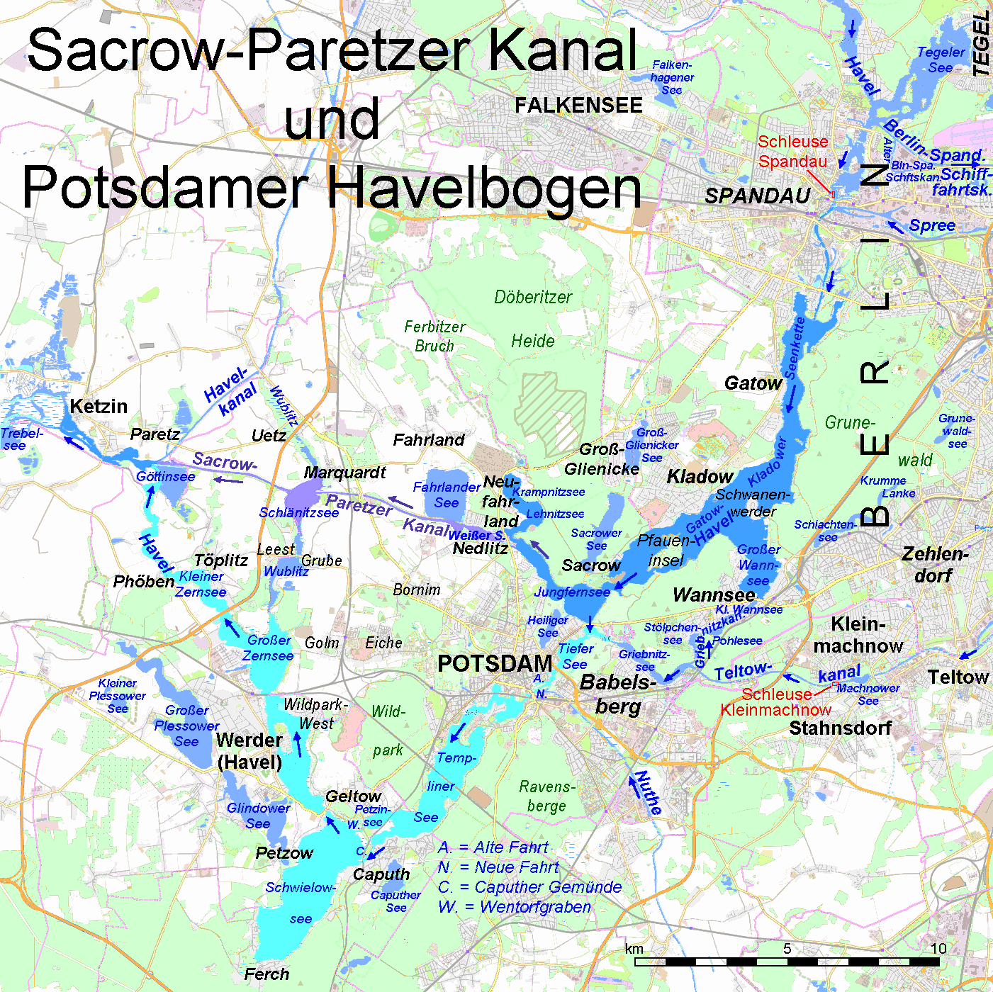 Map of Sacrow-Paretzer Kanal (lilac) and the parallel natural course of River Havel (Potsdamer Havelbogen, light blue). Also emphasized (dark blue) are sections od Havel River above and below these waterbodies, where the entire flow of the river is monitored, being a reference for the flows in the canal and the Havelbogen. This map may be incomplete, and may contain errors. Don't rely solely on it for navigation.